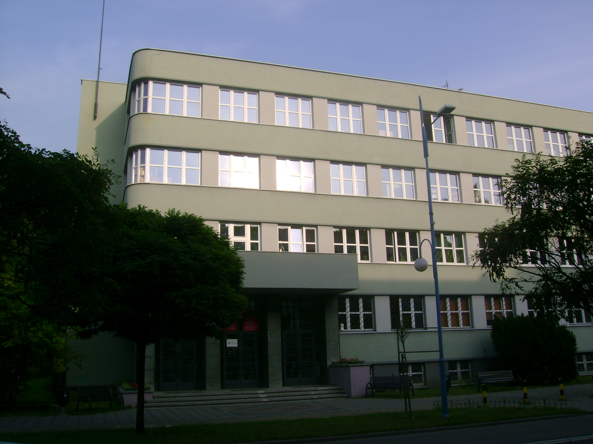 modernistic building, Rybnik